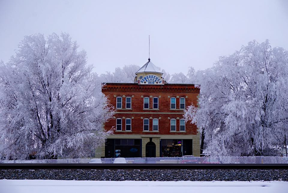 Bengoechea Hotel, Mountain Home, Idaho This work is free and may be used by anyone for any purpose. If you wish to use this content, you do not need to request permission as long as you follow any licensing requirements mentioned on this page.